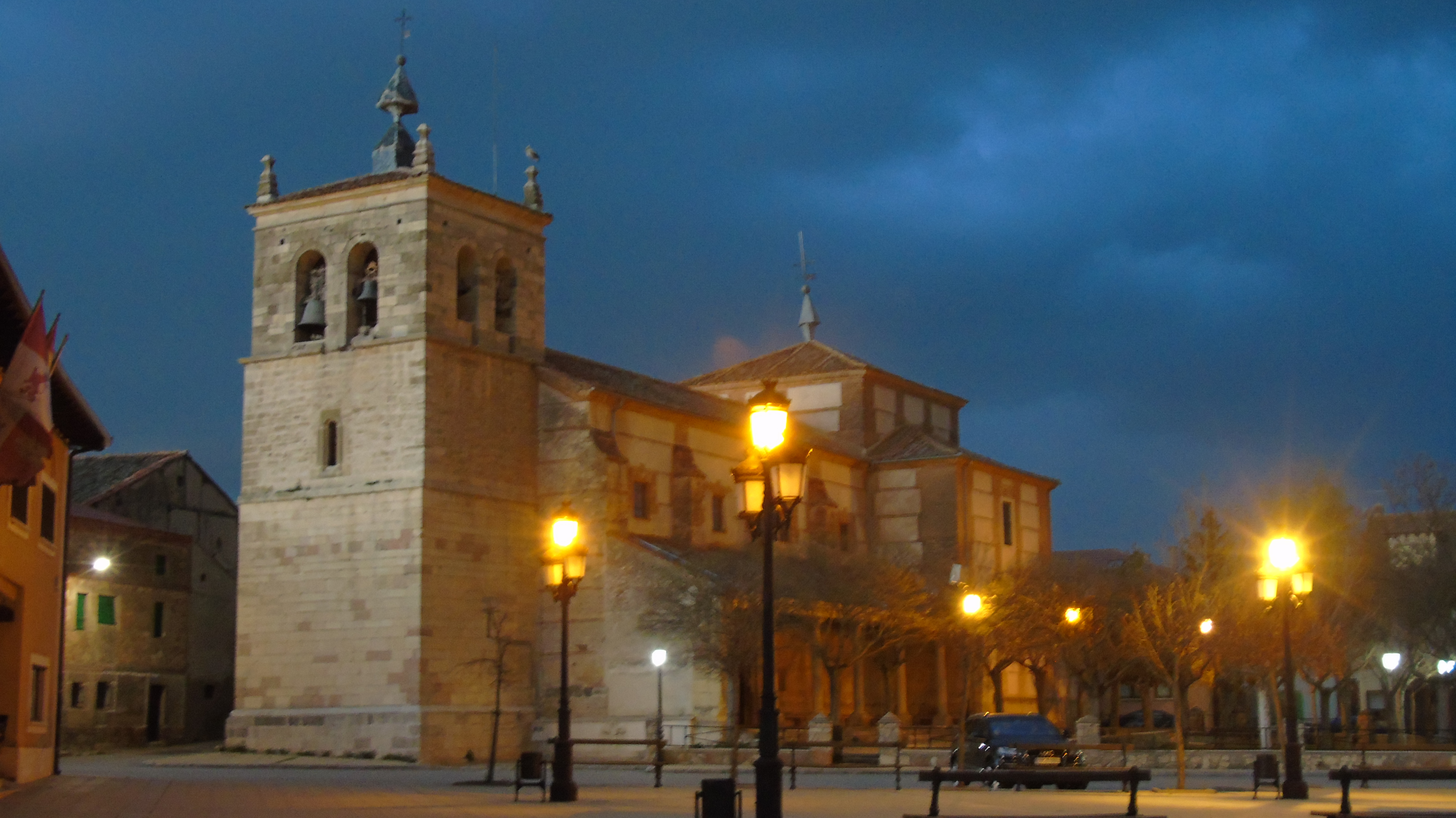 Escalona del Prado. Church of St. Zoilo and Main Square